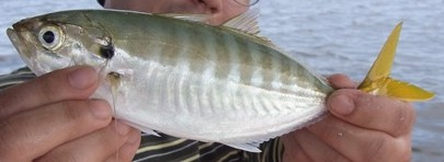 Yellowtail scad from Northern Cape York